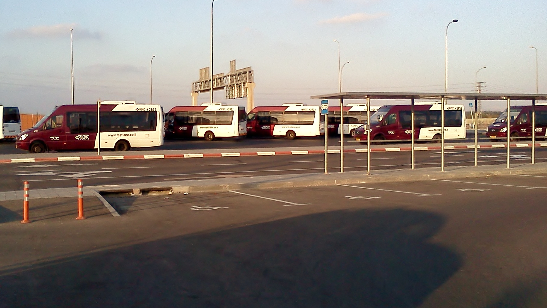 Fast lane buses for free ride to Tel Aviv, Israel